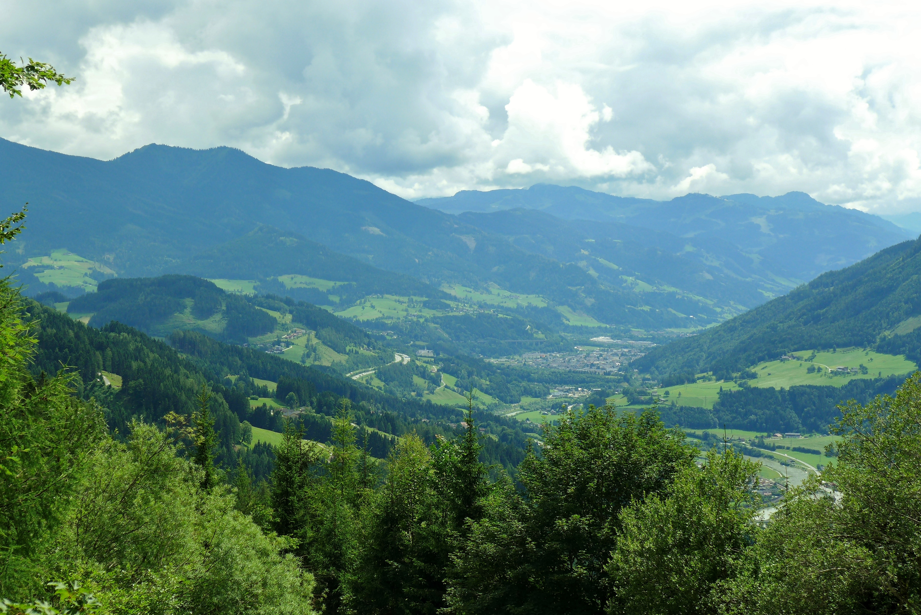 View of the Salzach valley in Salzburg (state), Austria, from the trail leading up to Eisriesenwelt in the Tennen Mountains. The town in the middle of the image is Bischofshofen.